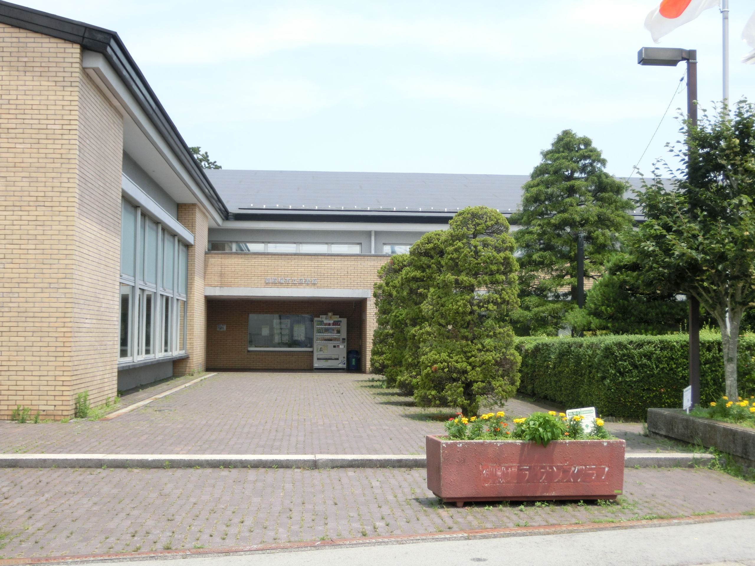 Gotemba City Library